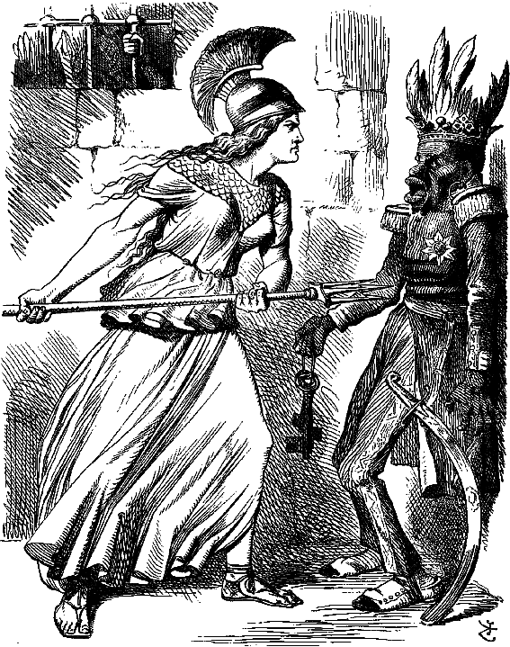 Image from a full-page cartoon by John Tenniel of the 1868 Expedition symbolized as Britannia threatening King Tewodros II as a key-holding jailer. Original caption: The Abyssinian Question. Britannia. "Now, then, King Theodore! How about those prisoners?".